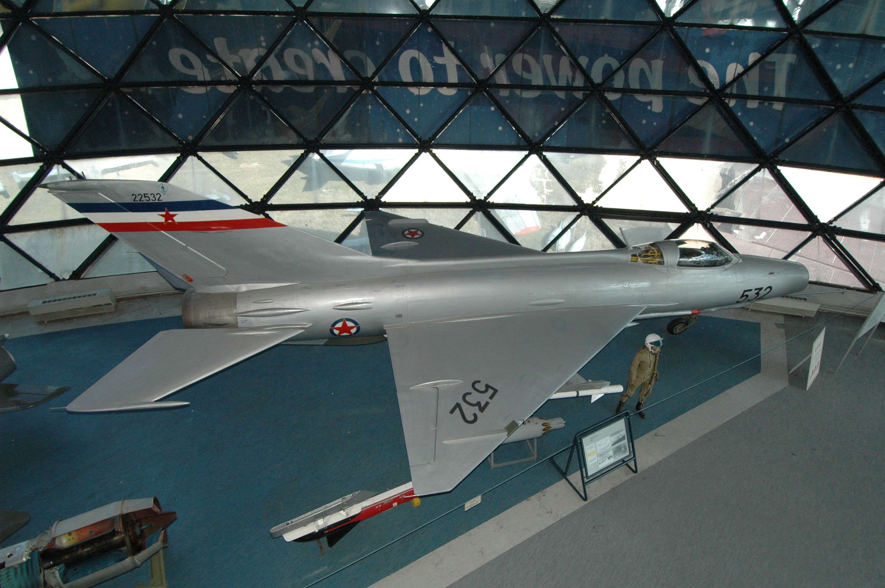 МиГ 21 F-13